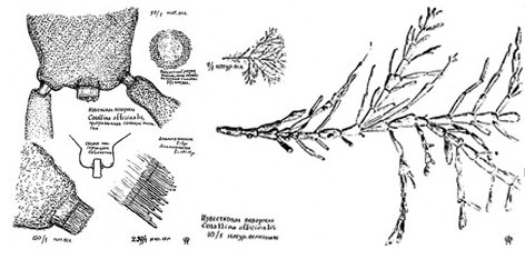 Coral Weed (Corallina officinalis) Drawing from Pawel Florenski